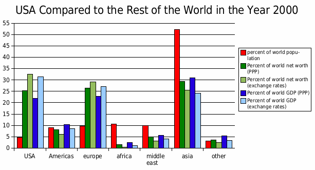 United States wealth compared to the rest of the world in the year 2000.